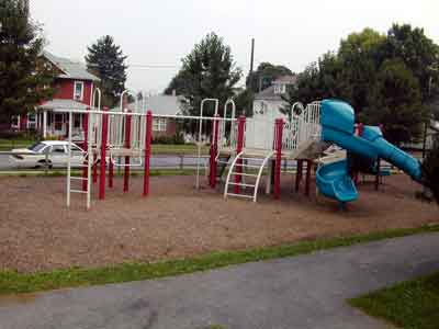 BP playground